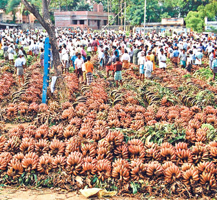 banana(red bananas)bunches market,Tamil Nadu, India.